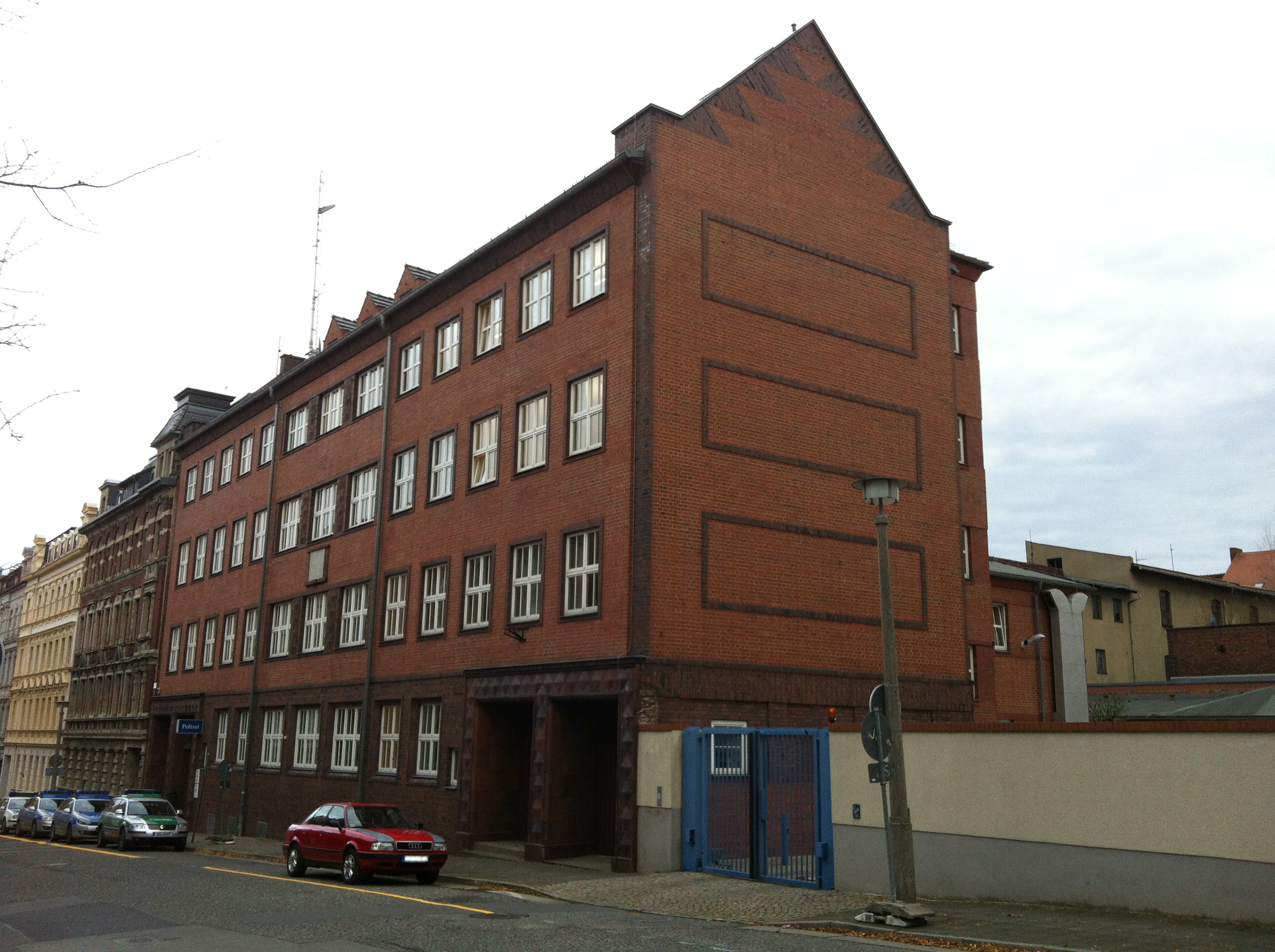 Police station on the Gobbinstraße in Görlitz, Saxony